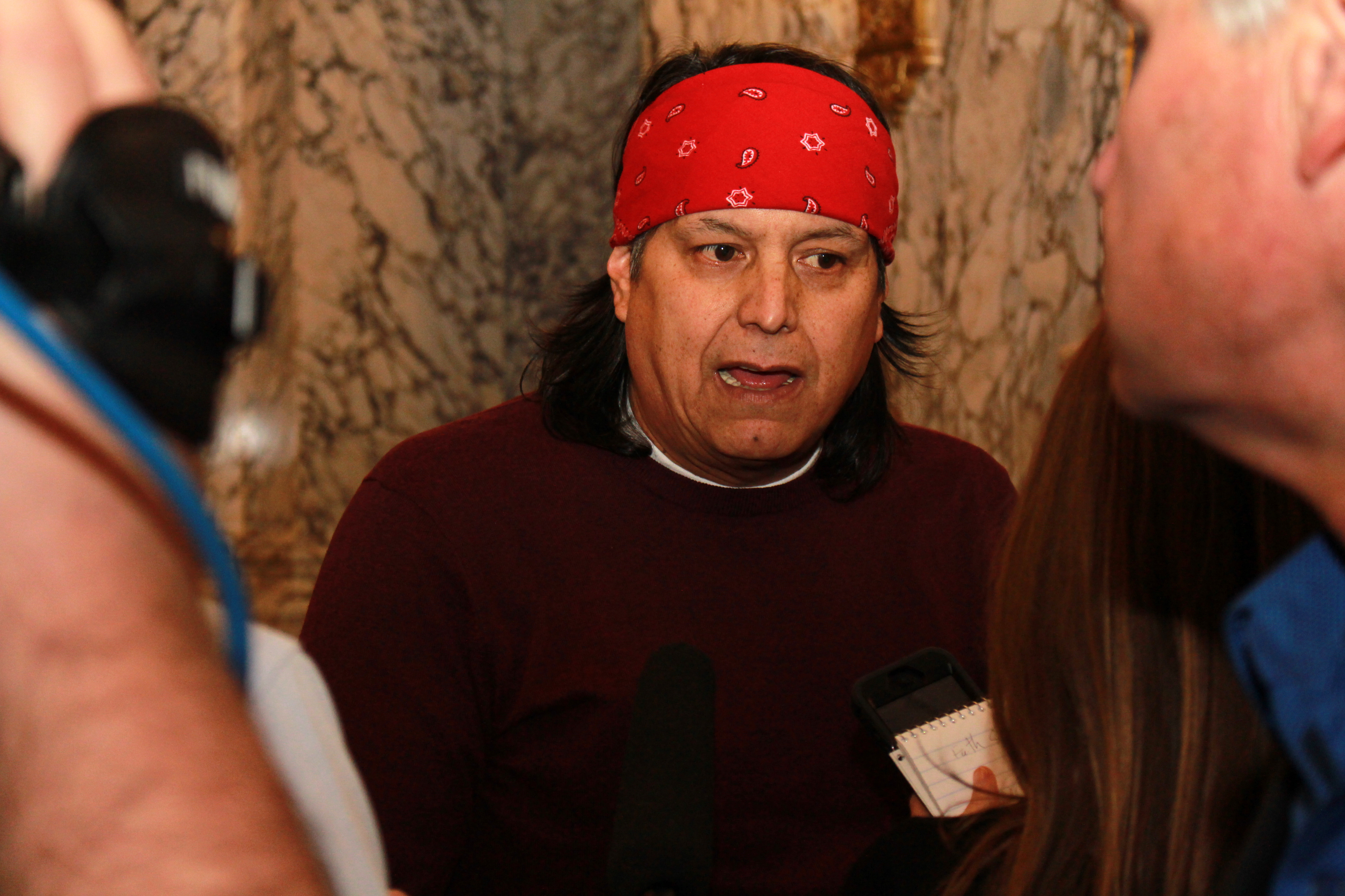 277-ElectoralCollege_DEC2016_00697